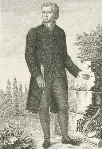 Italian poet and librettist Carlo Innocenzo Frugoni (1692-1768) by Luigi Rados (1773-1840).